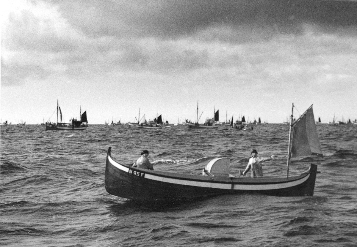 Nordland boat (nordlandsbåt, åttring) with motor and mesan, a so-called Motoråttring. On the Lofoten fishery. In the background more modern boats. The Nordland boat has no "N 95 F". Adoption for photography 1910 - 1940 Nordlandsmuseet - Inventarnr. NM.F.001907-00001